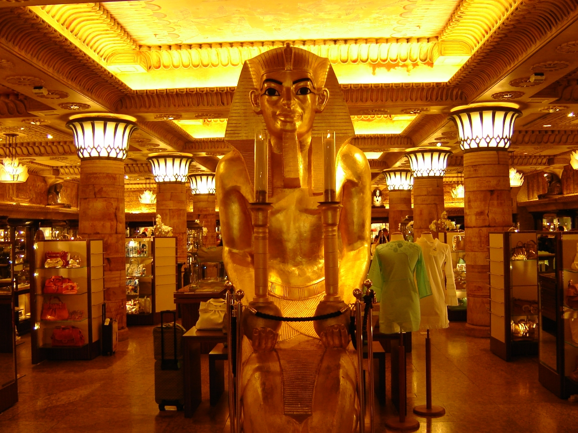 The Egyptian themed Room of Luxury 4 at Harrods, London